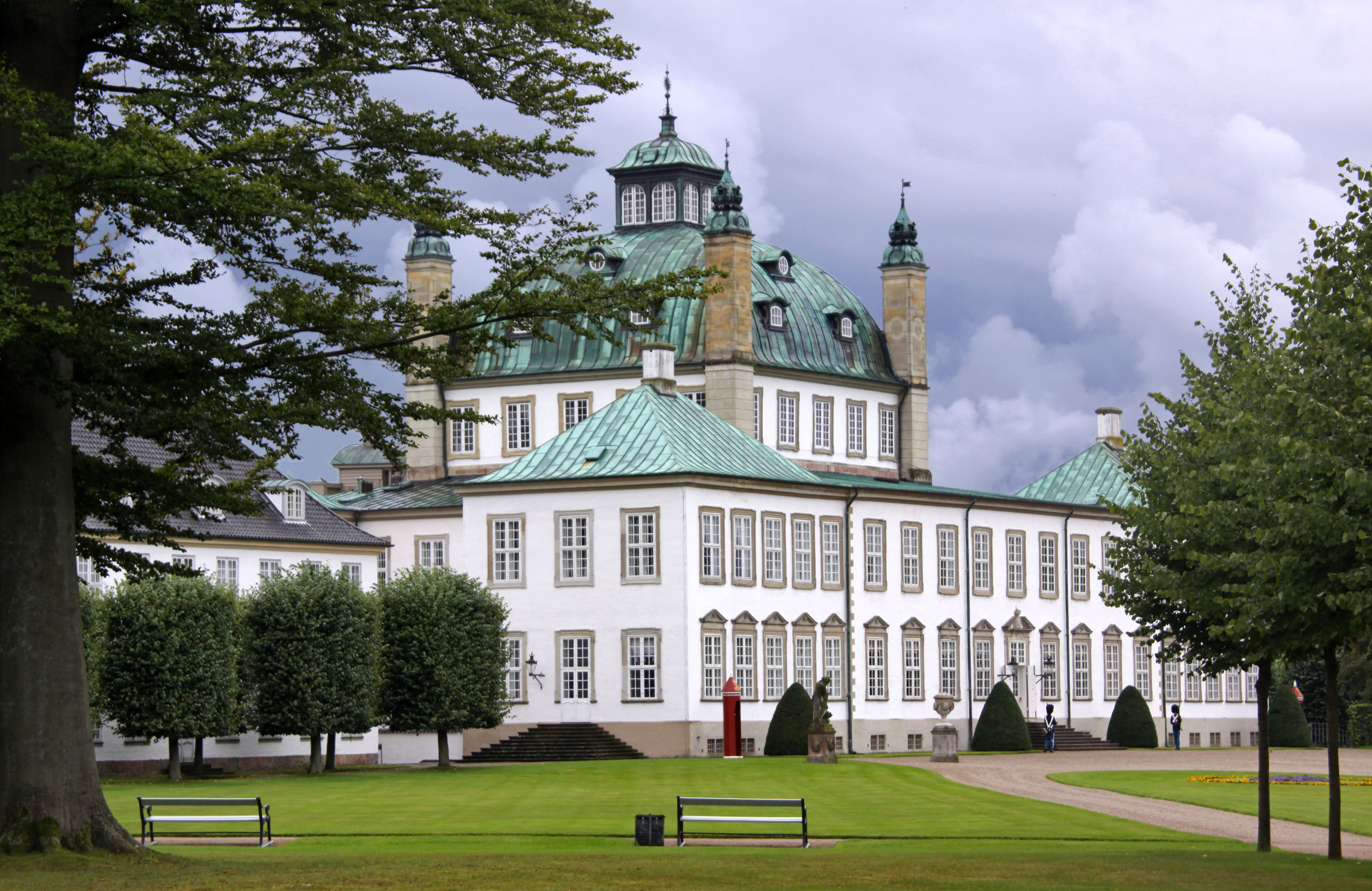 Garden view of Fredensborg Palace north of Copenhagen, Denmark